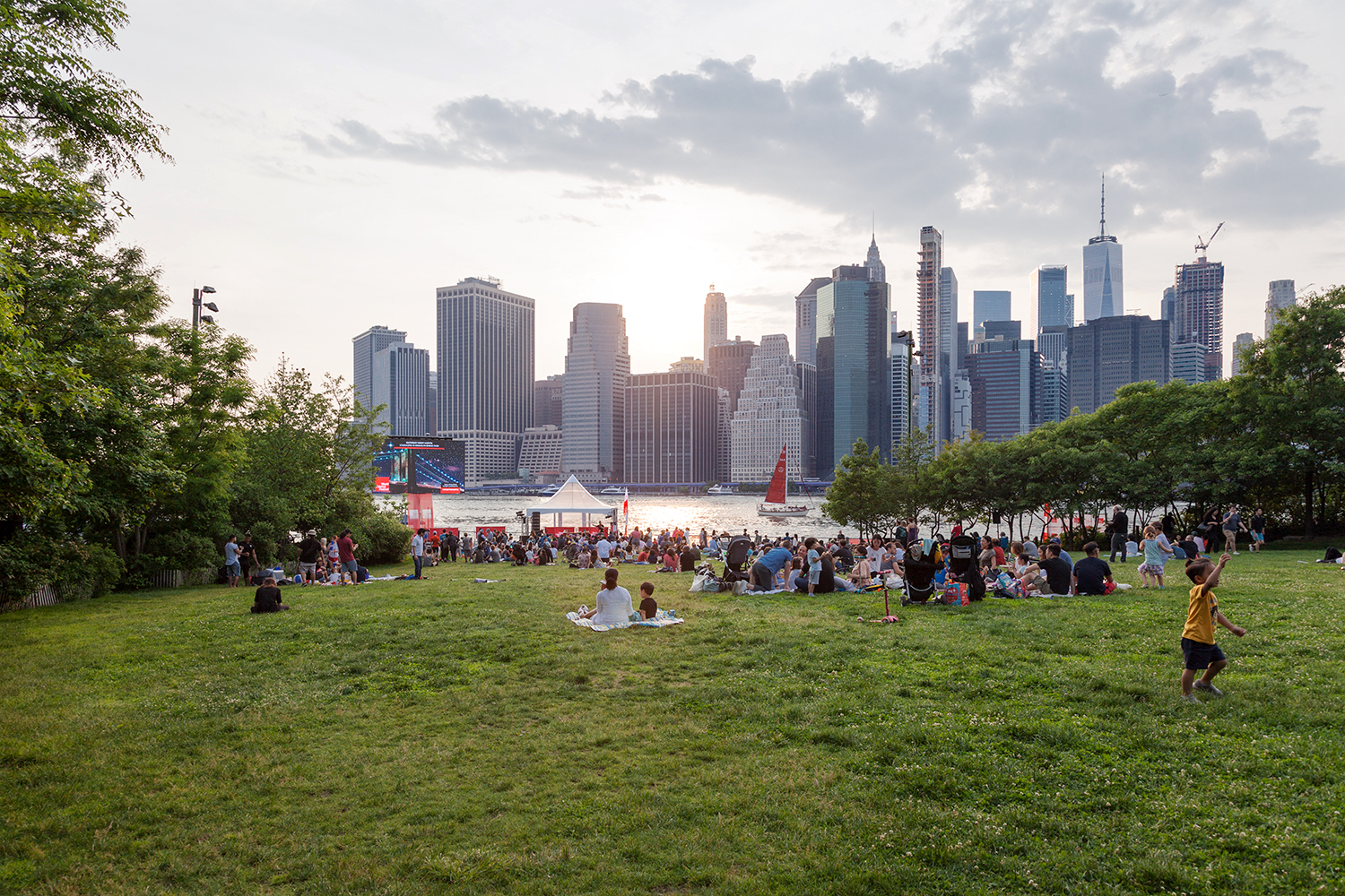 Audience preparing to watch "Deep Field: The Impossible Magnitude of our Universe," by Eric Whitacre at the World Science Festival on Harbor View Lawn in Brooklyn (Photo gallery of DUMBO, Brooklyn)